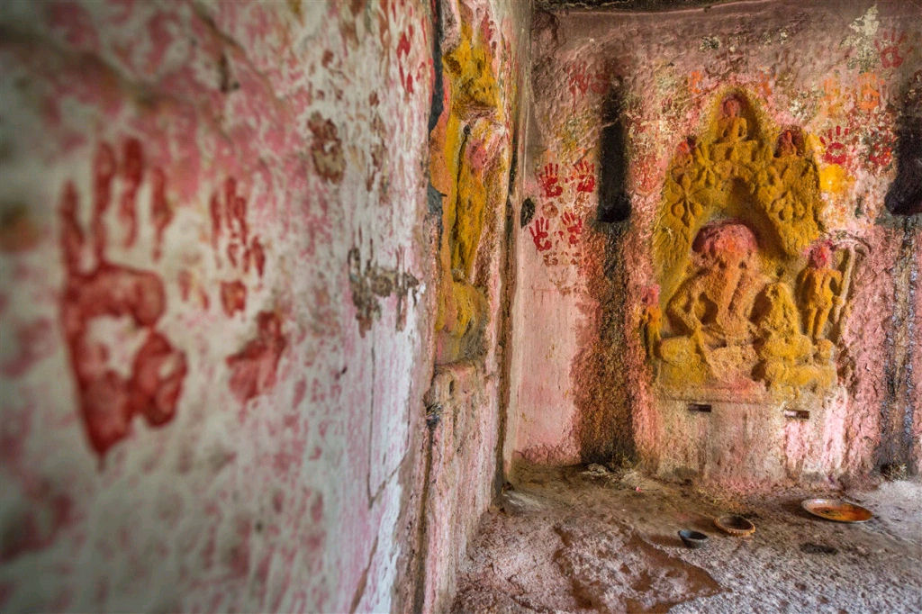 Amba-Ambika cell